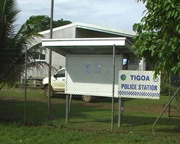 New RAMSI build Tigoa police station and accommodation